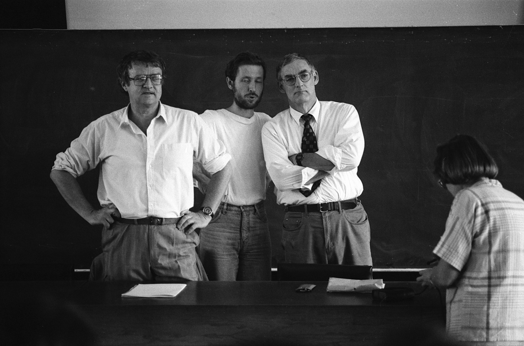 Dennis Meadows and Josef Vavroušek, STUZ, Praha, 26 August 1994.